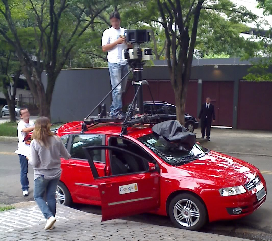 Google Street View Car in Pinheiros, São Paulo, Brazil.